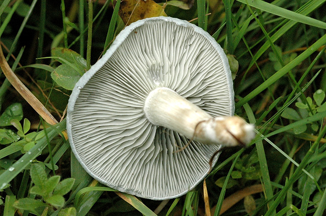 Clitocybe odora from Commanster, Belgium. The determination of the species shown in this picture has been verified.